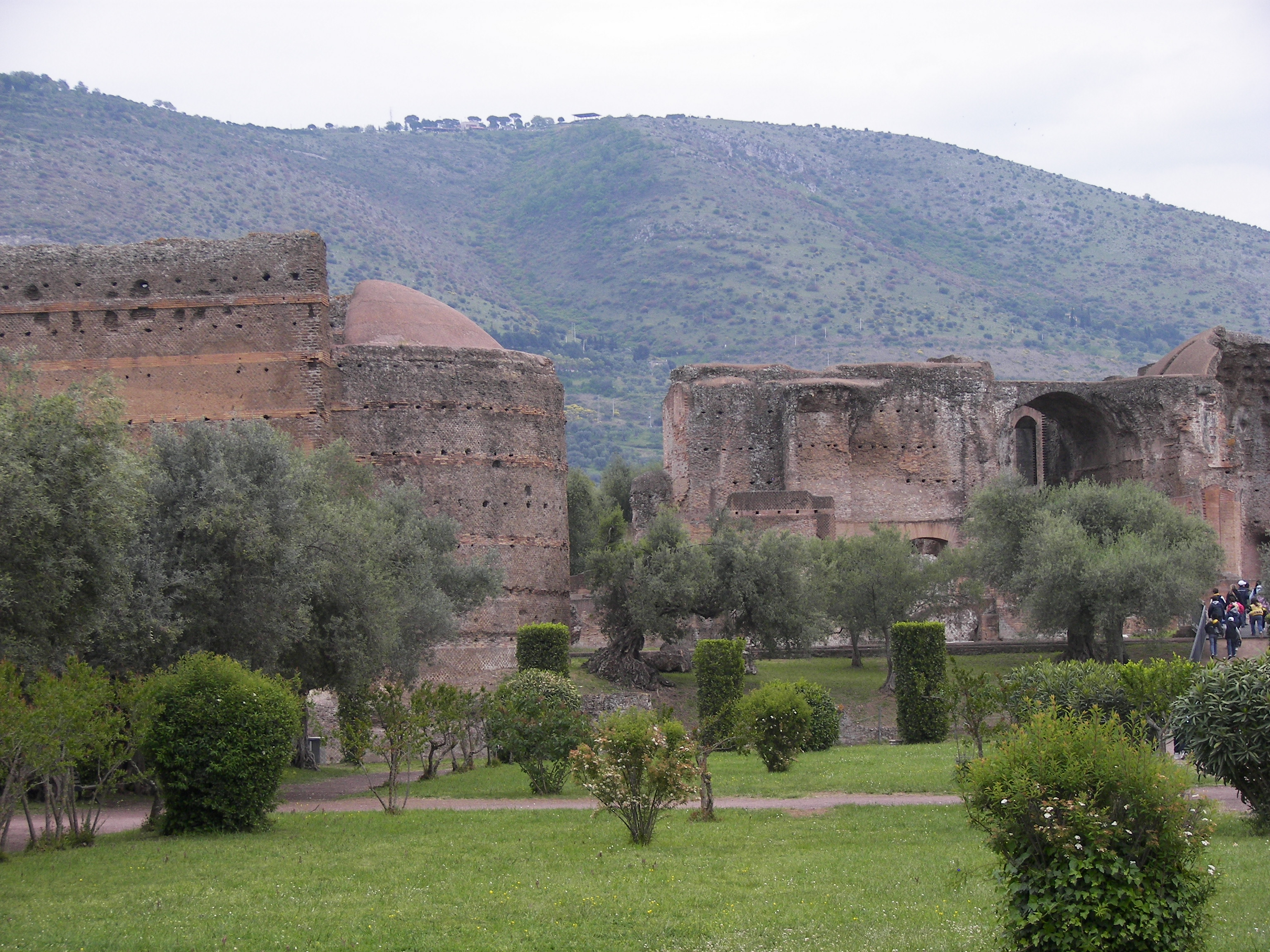 View from the Poikile in Villa Adriana in Tivoli. Room of the Philosophers is to the left and Thermae with Heliocaminus to the center-right.